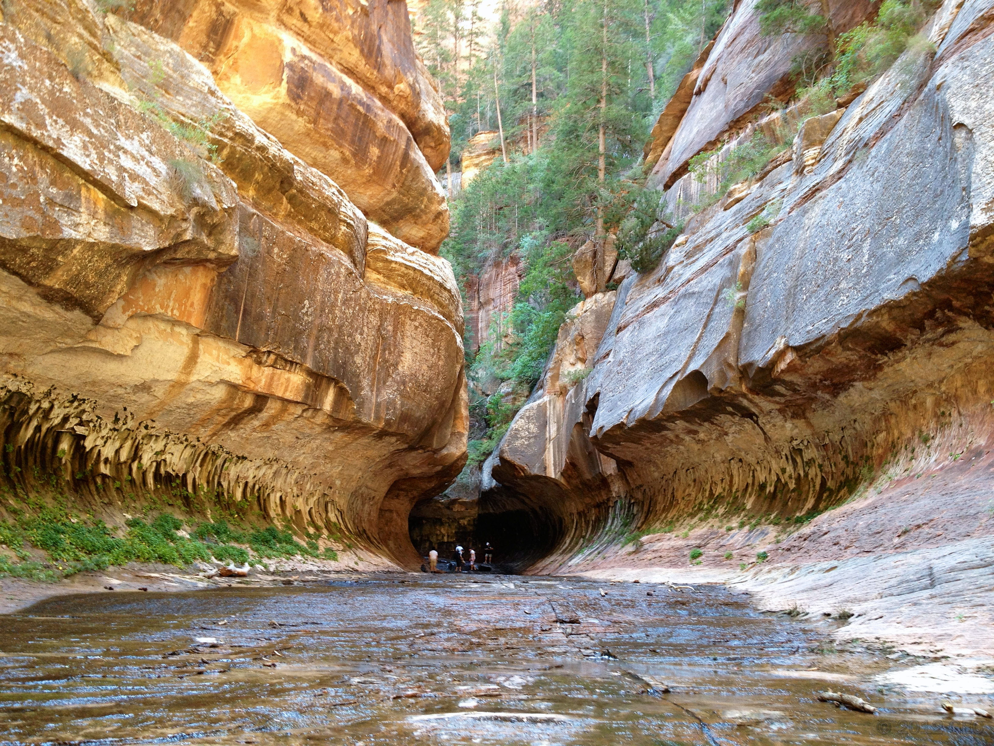 Approaching The Subway (bottom up) - Zion National Park